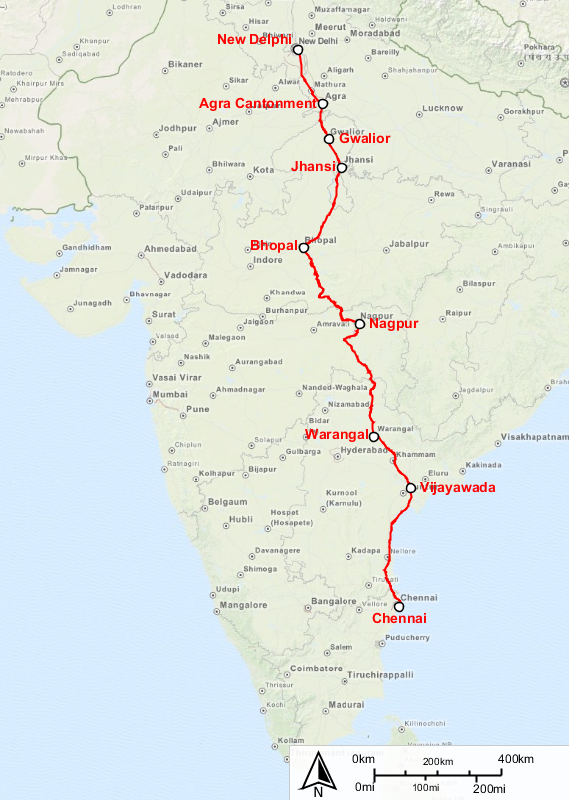 Indian Railways Chennai Rajdhani Express Legend: ━━━ Train route